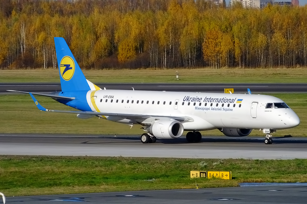 Ukraine International Airlines, UR-EMA, Embraer ERJ-190STD